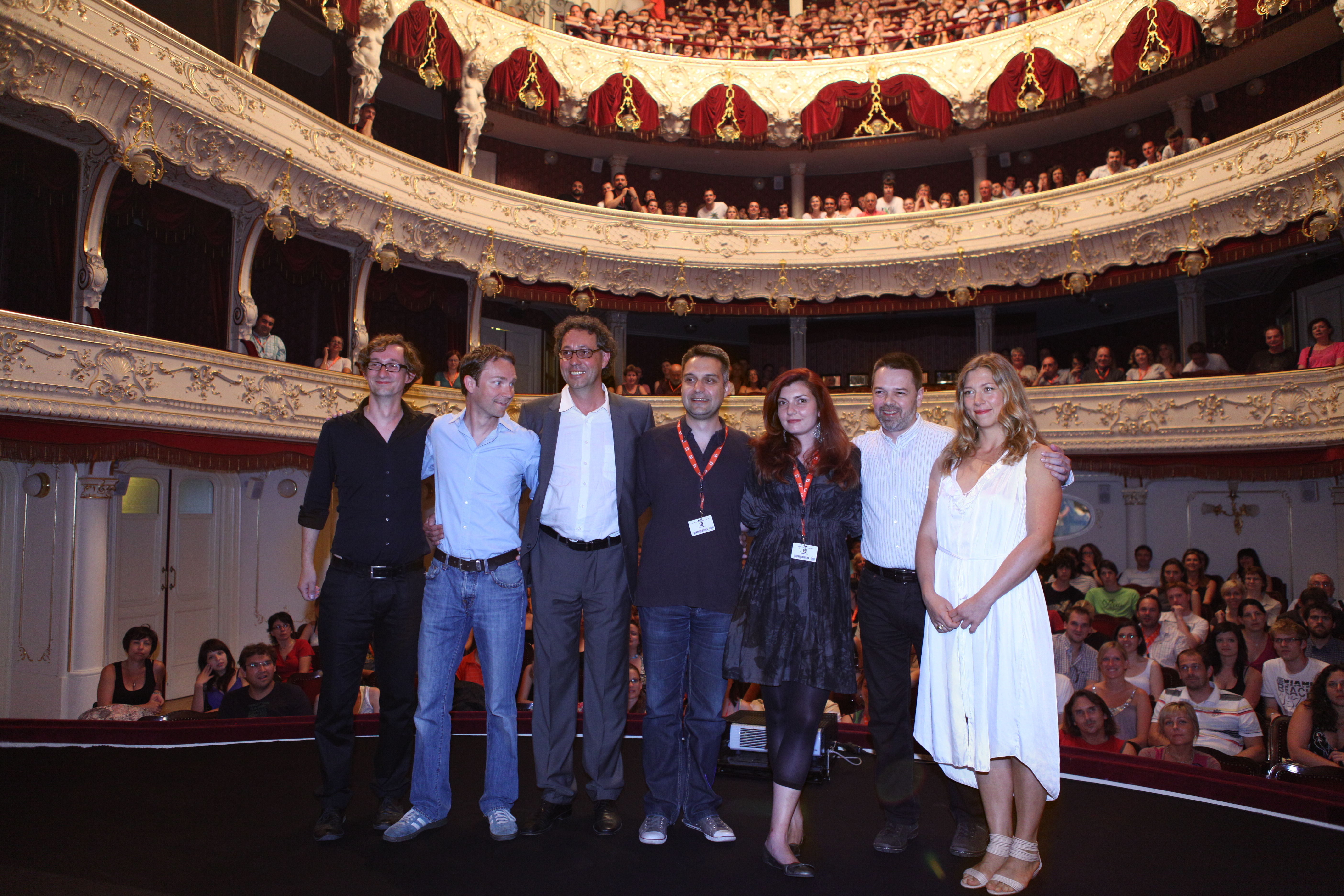 Cast and crew of the film Žena se slomjenim nosem (Жена са сломљеним носем) pose for a photo with audience before screening at 2010 Karlovy Vary International Film Festival